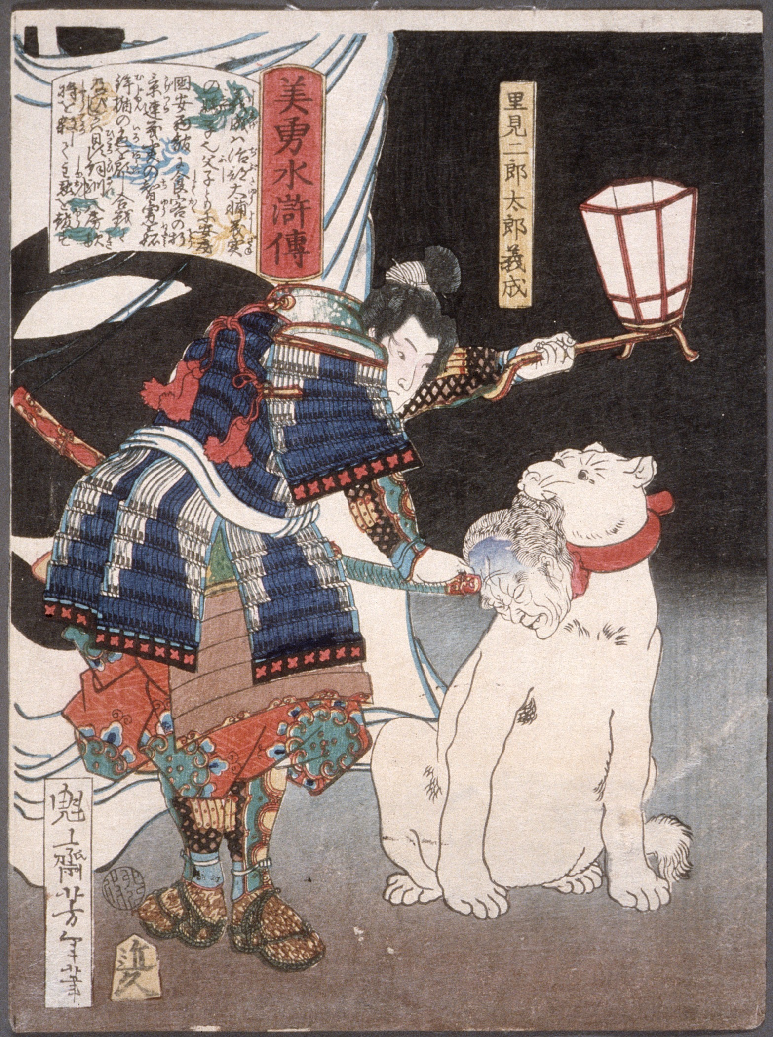 Japan, 4/1867 Series: Beauty and Valor in the Novel Suikoden Prints; woodcuts Color woodblock print Herbert R. Cole Collection (M.84.31.378) Japanese Art